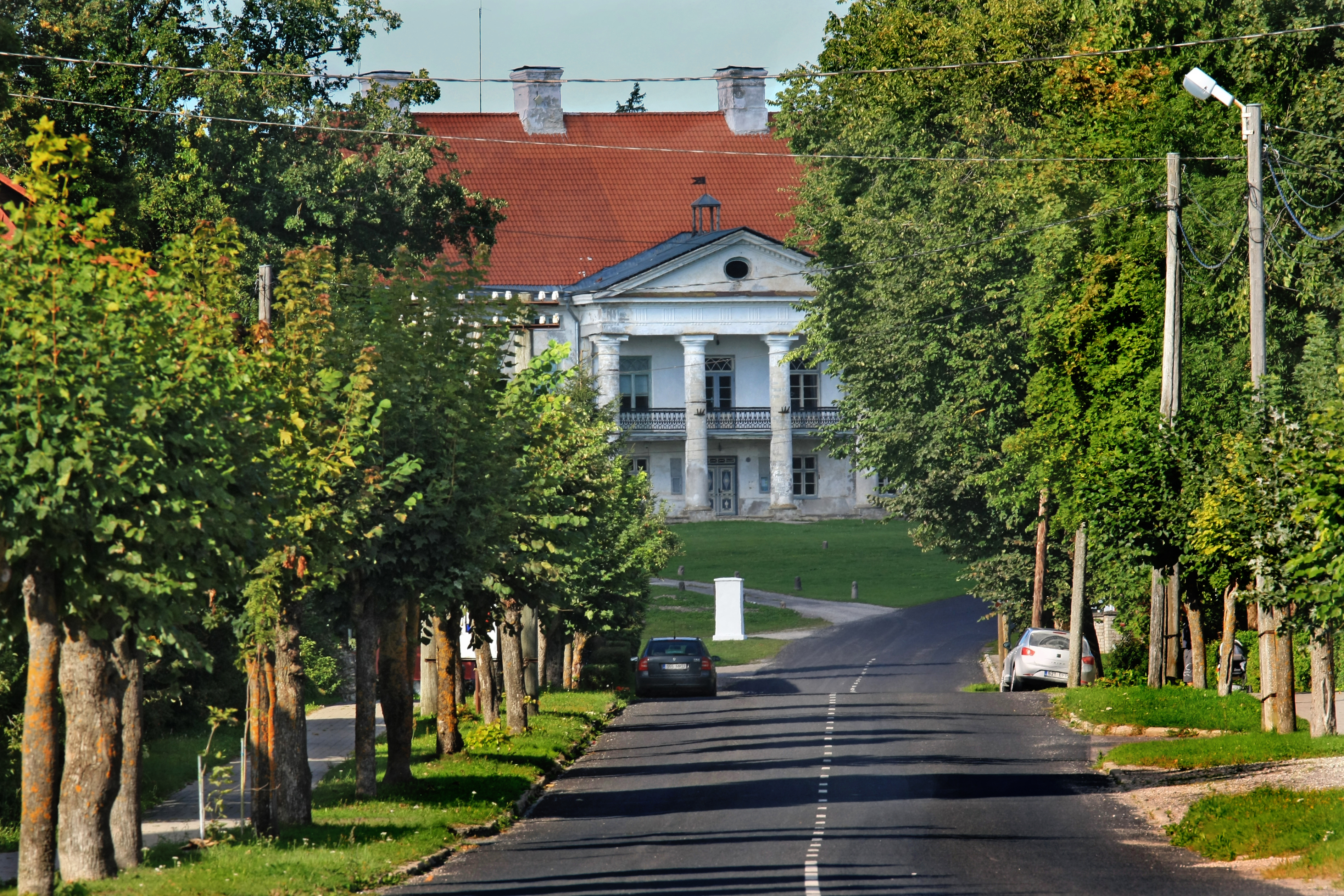 The main street of the town Lihula